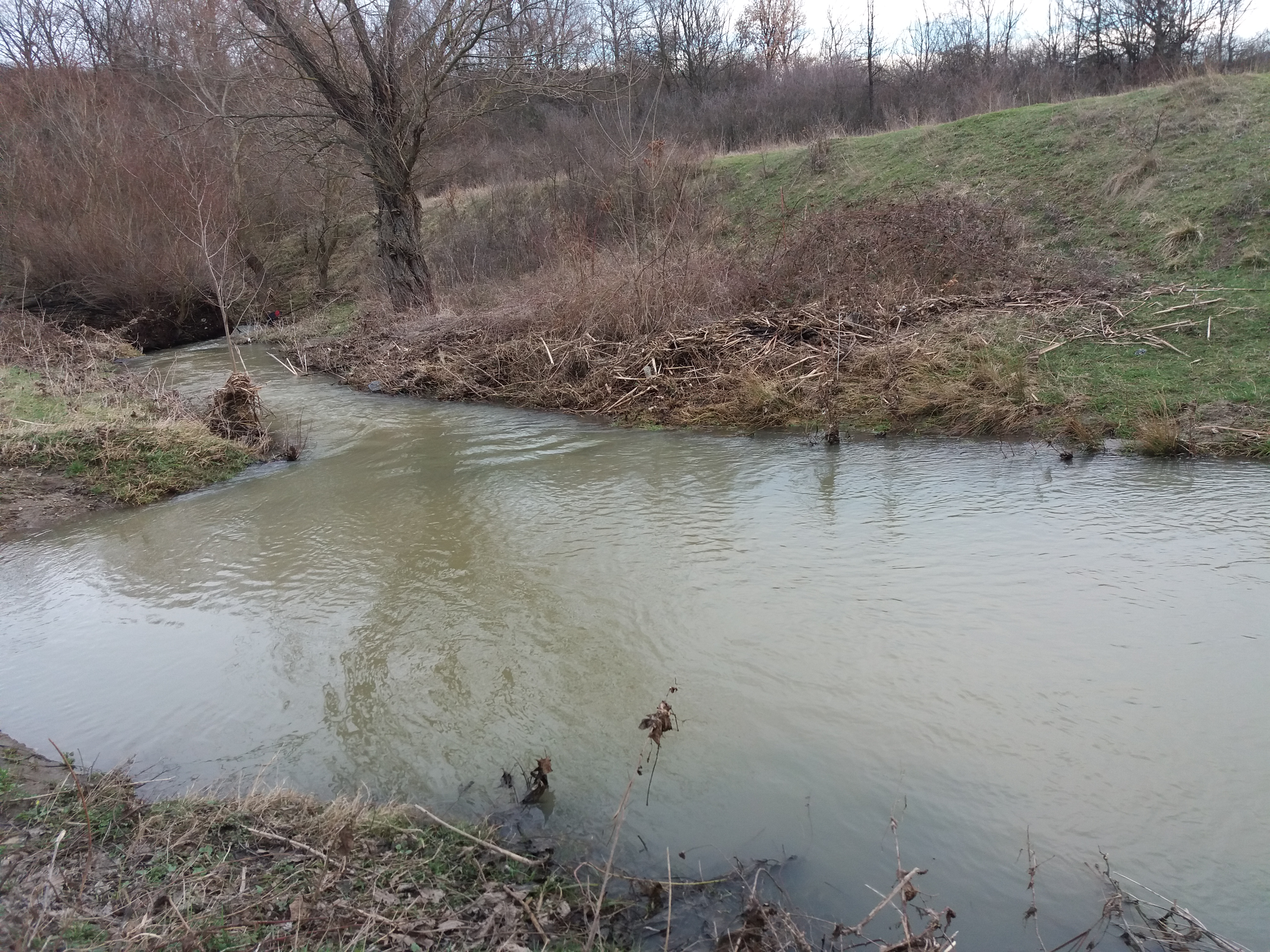 Karamandere river at Mandra dam